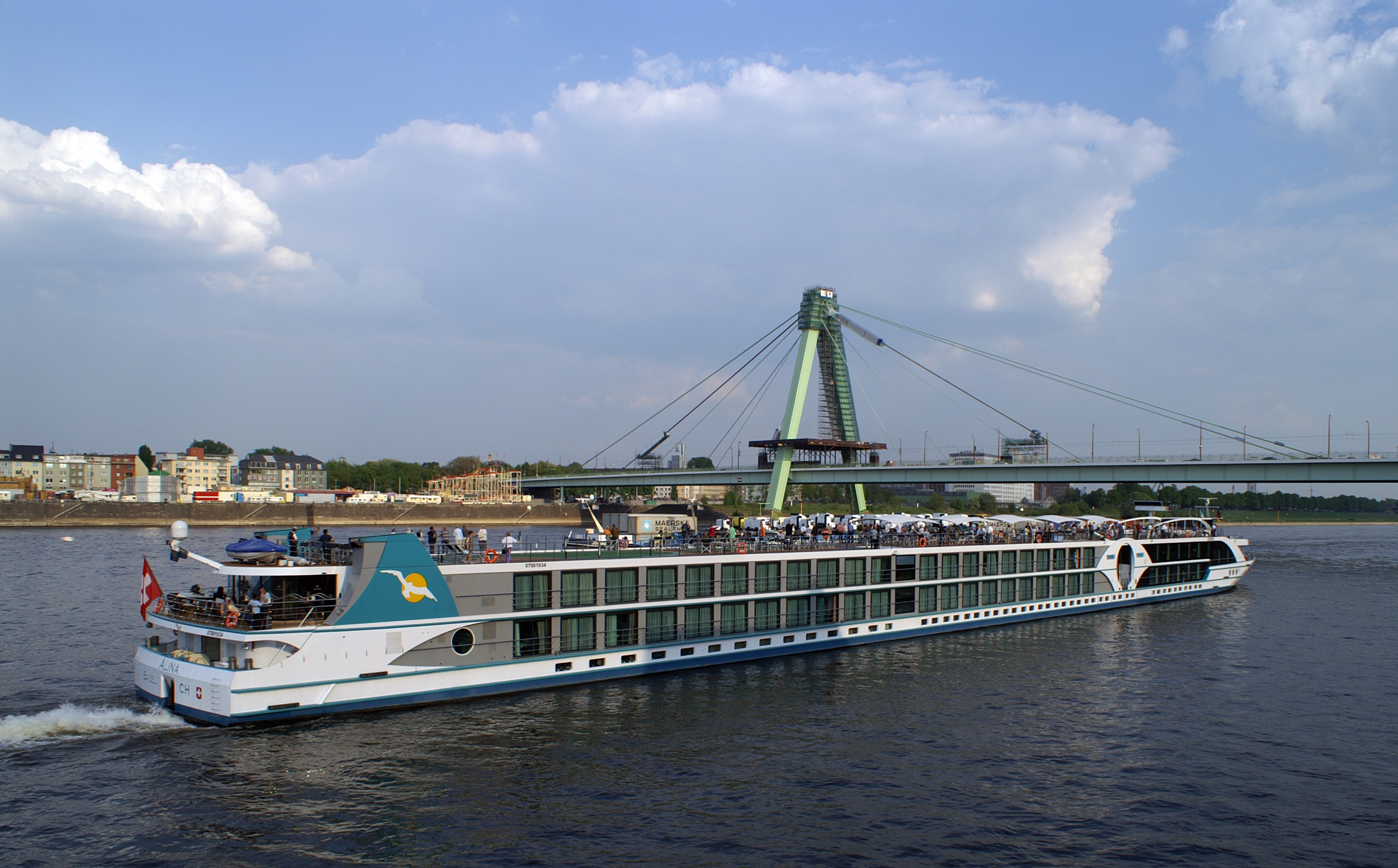 River cruise ship Alina in cologne.